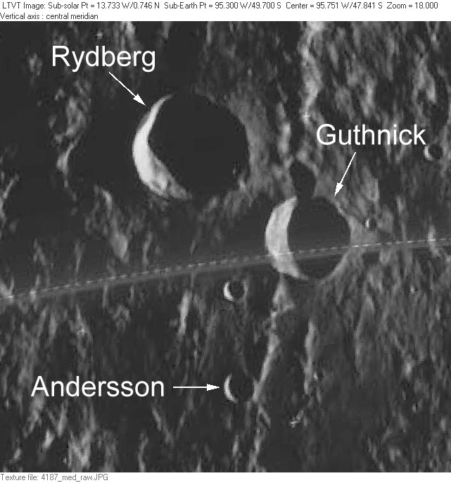 LO-IV-187M This low sun angle view shows the position of Andersson relative to Rydberg and Guthnick.